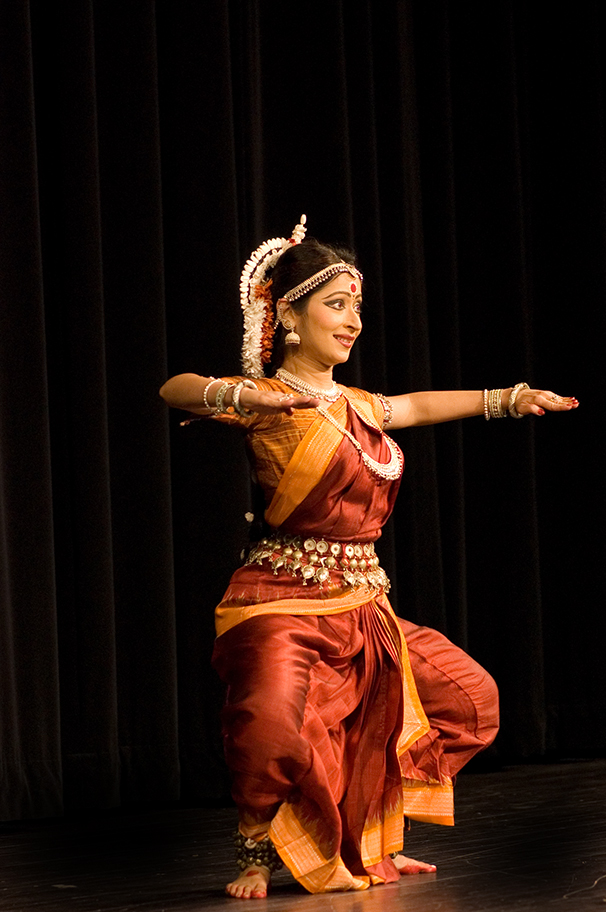 Nandini Ghosal performing the Indian classical dance Odissi at the Coffman Memorial Union in the University of Minnesota Twin Cities